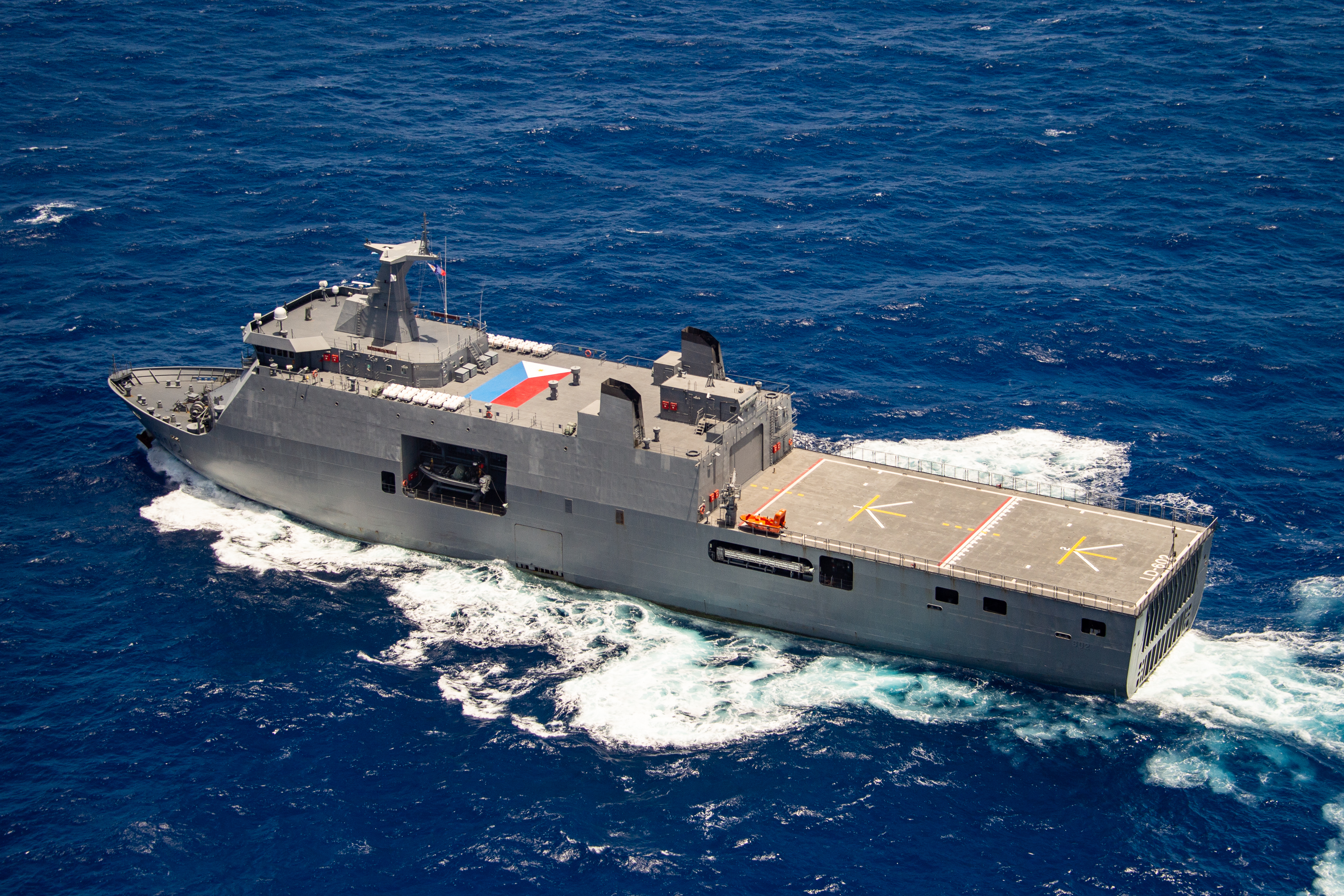 PACIFIC OCEAN (July 26, 2018) Philippine Navy landing platform dock BRP Davao Del Sur (LD 602) participates in a group sail during the Rim of the Pacific (RIMPAC) exercise off the coast of Hawaii, July 26. Twenty-five nations, 46 ships and five submarines, and about 200 aircraft and 25,000 personnel are participating in RIMPAC from June 27 to Aug. 2 in and around the Hawaiian Islands and Southern California. The world's largest international maritime exercise, RIMPAC provides a unique training opportunity while fostering and sustaining cooperative relationships among participants critical to ensuring the safety of sea lanes and security of the world's oceans. RIMPAC 2018 is the 26th exercise in the series that began in 1971. (U.S. Navy photo by Mass Communication Specialist 1st Class Arthurgwain L. Marquez/Released)